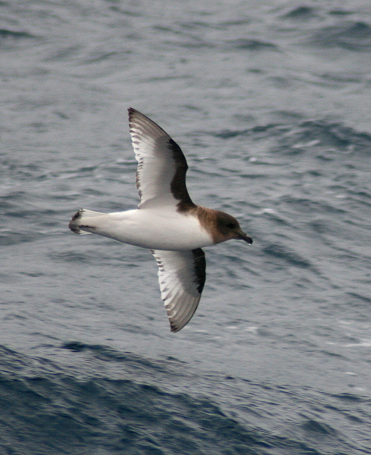 Antarctic Petrel (Thalassoica antarctica) off of the Western Antarctic Peninsula